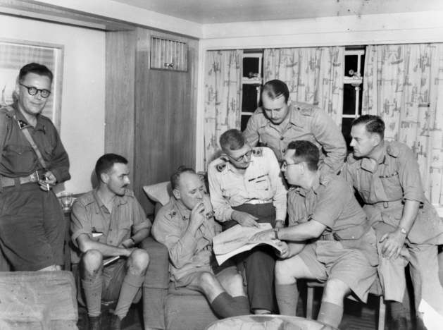 Left to right: Unknown; Lieutenant Colonel Gibson; Major General Allan; Brigadier Blackburn VC; Lieutenant R. E. Porter, (standing); Colonel C. M. Elliott and Colonel F. K. Norris.